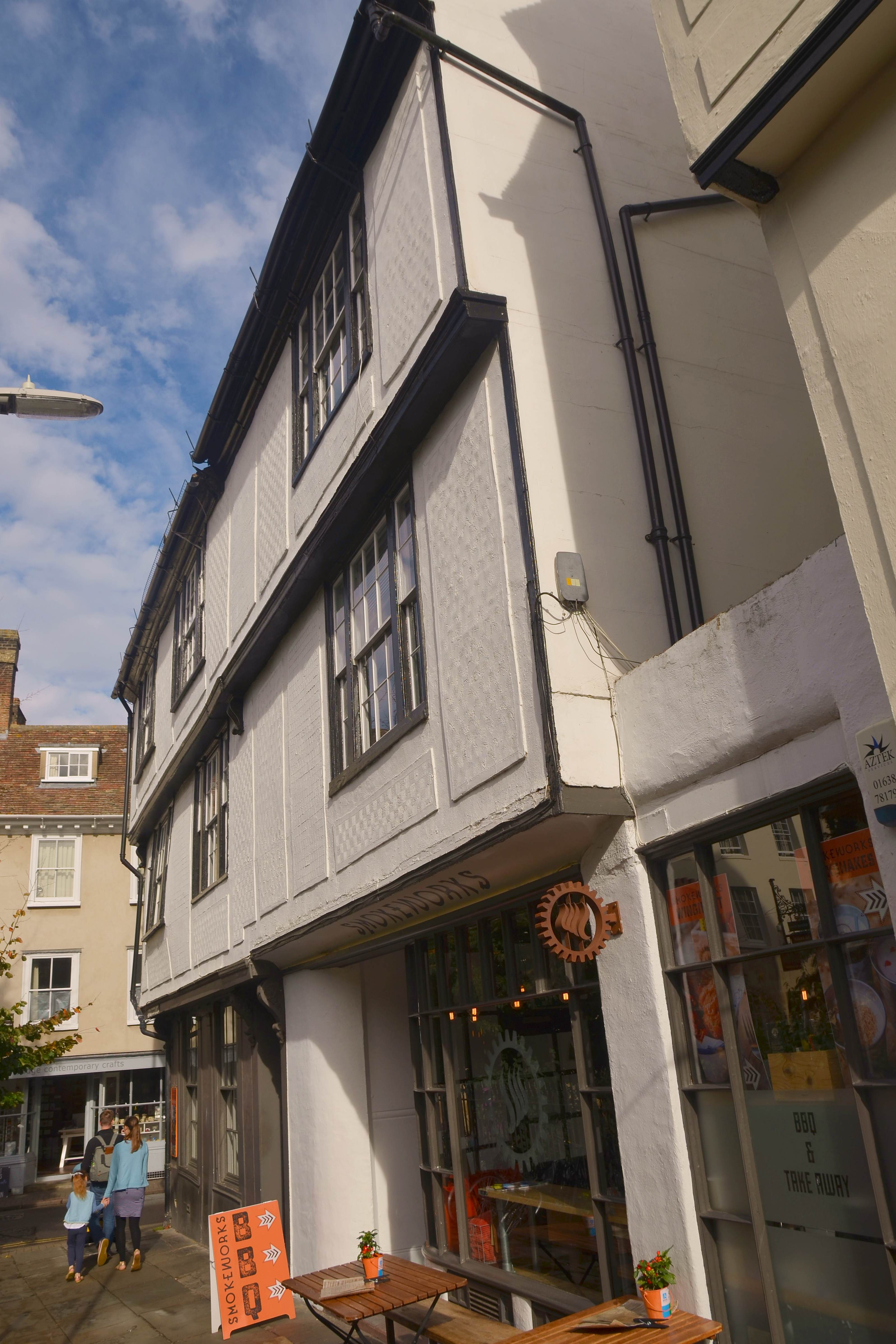 Friar House, Cambridge viewed from the south in October 2018.